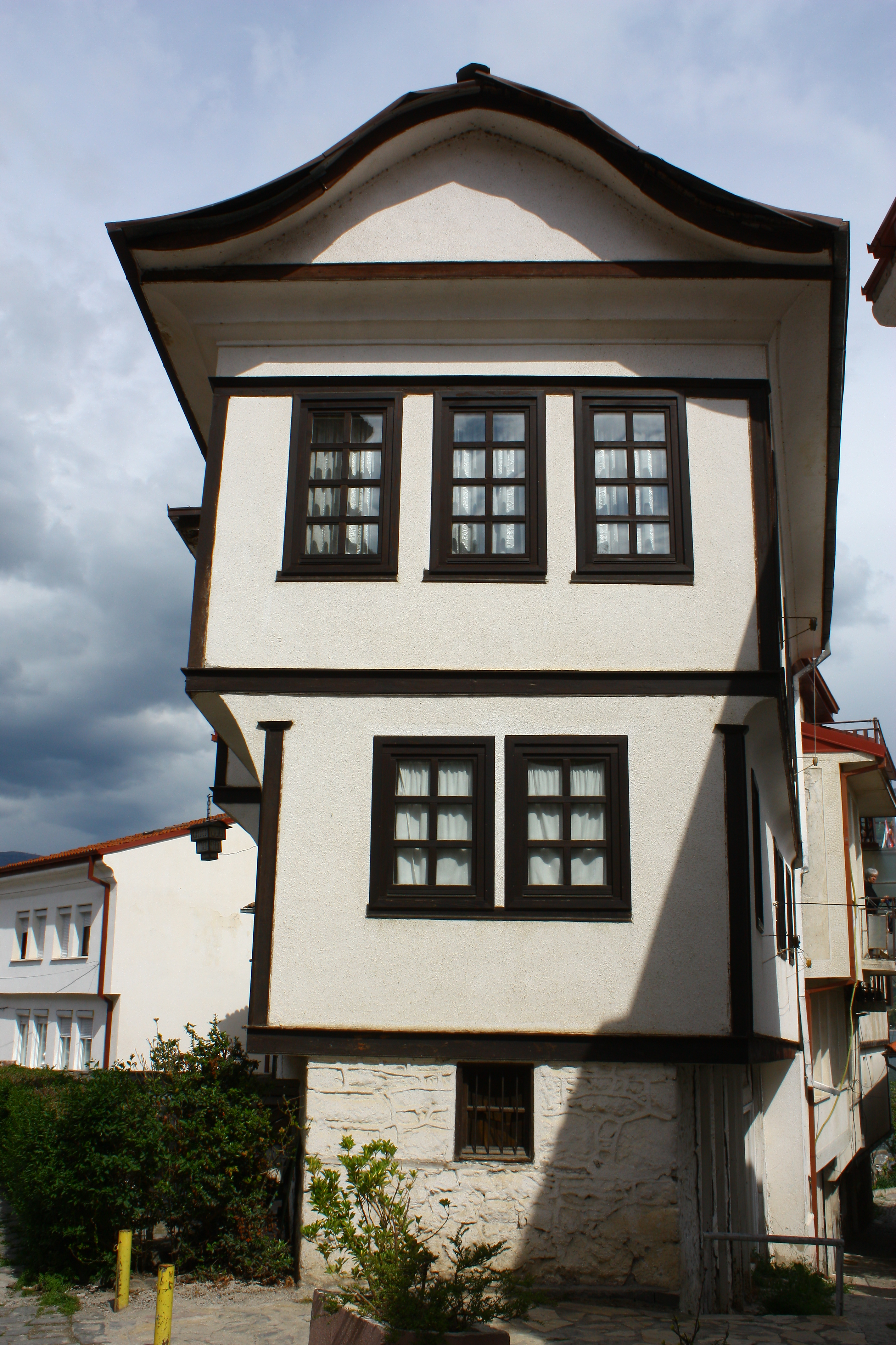 Ohrid, Macedonia